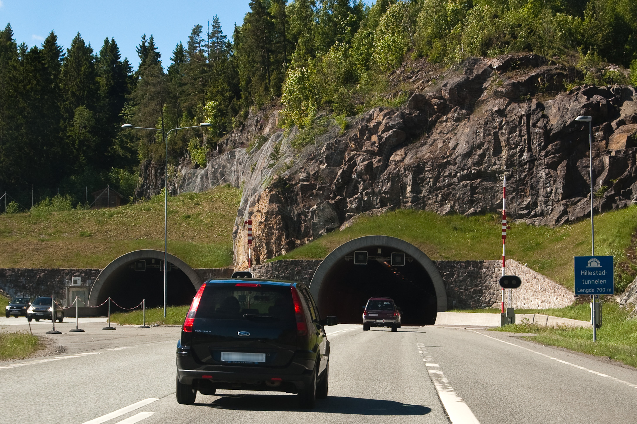 The Hillestad tunnel on E18 in Vestfold, Norway.